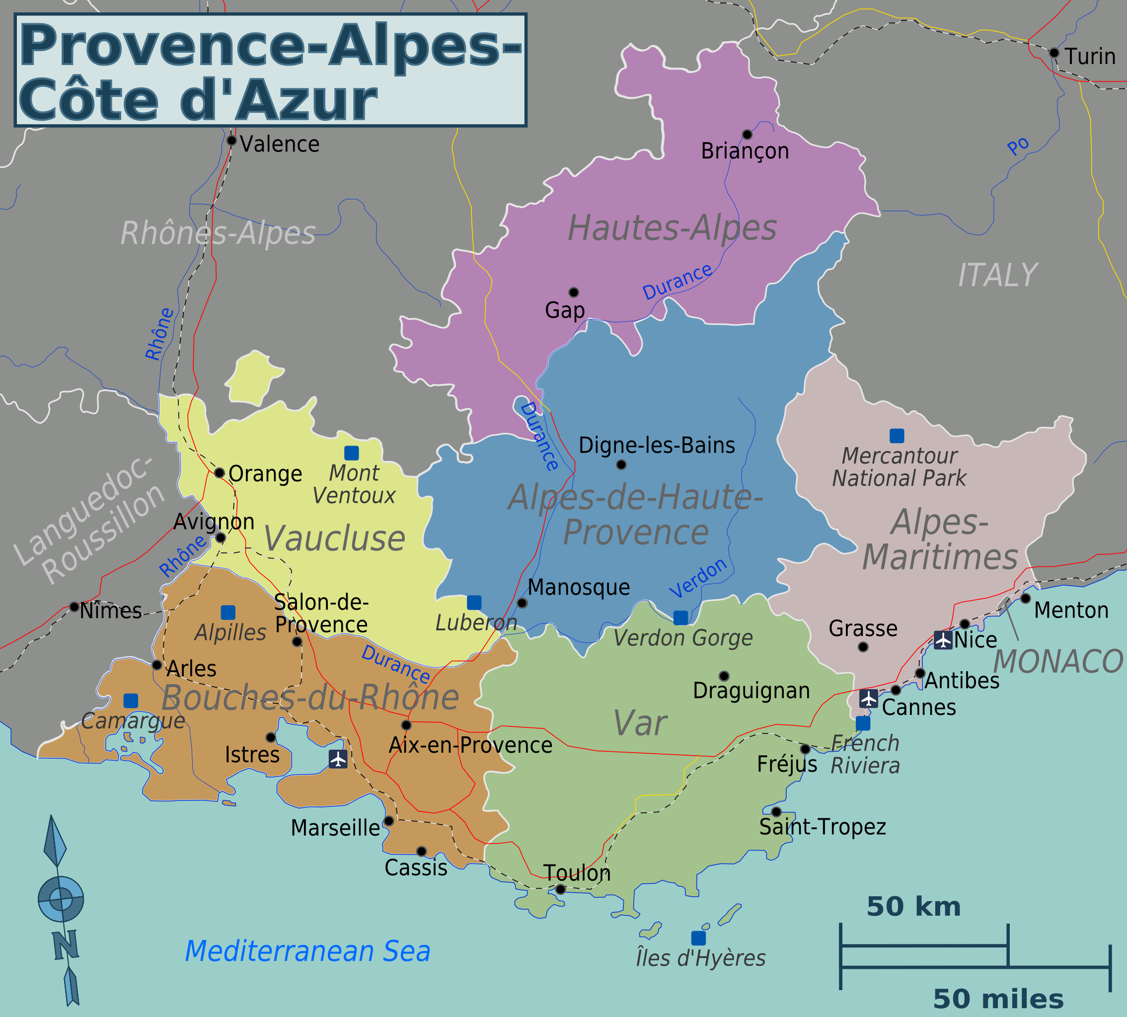 Map of Provence-Alpes-Côte d'Azur.